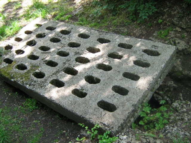 The slab that blocks entrance into Abysmal Well cave in Agarmysh mountains, Crimea, Ukraine.